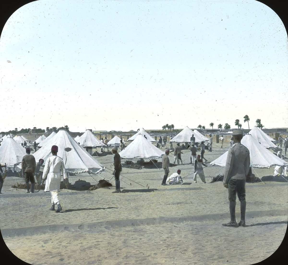 Egypt - Military camp, Wady Halfa. Brooklyn Museum Archives, Goodyear Archival Collection (S03_06_01_018 image 2374). It helps us to know how our visitors work with our images, so if you use it, we'd love to know how! Drop us a line by leaving a comment here or email our archivist: Update: Correction to record 6/1/09: Wadi Halfa Help us map this image by using Suggestify to suggest a location for it.